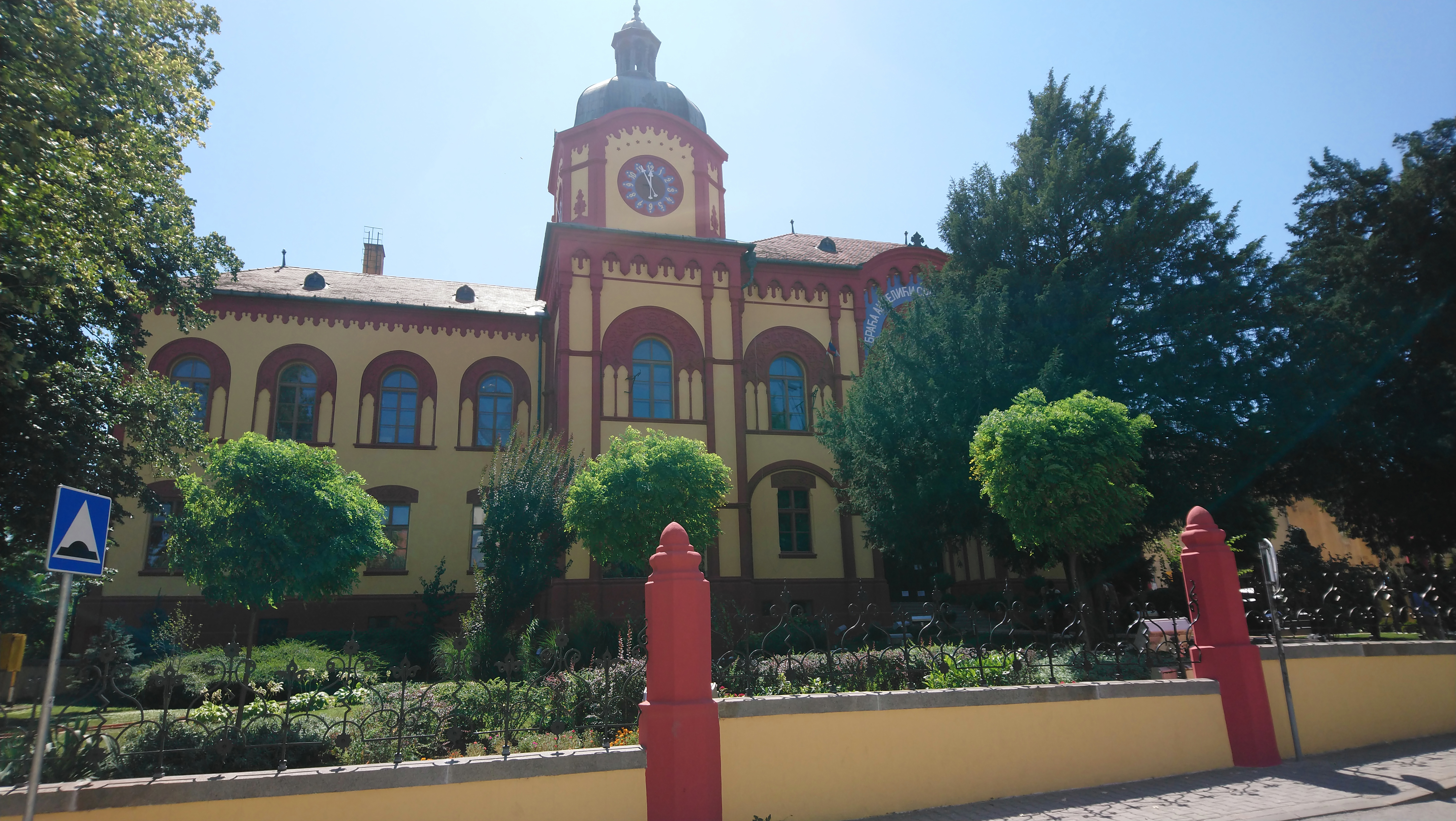 Gymnasium of Karlovci Српски (ћирилица): Карловачка гимназија у Сремским Карловцима